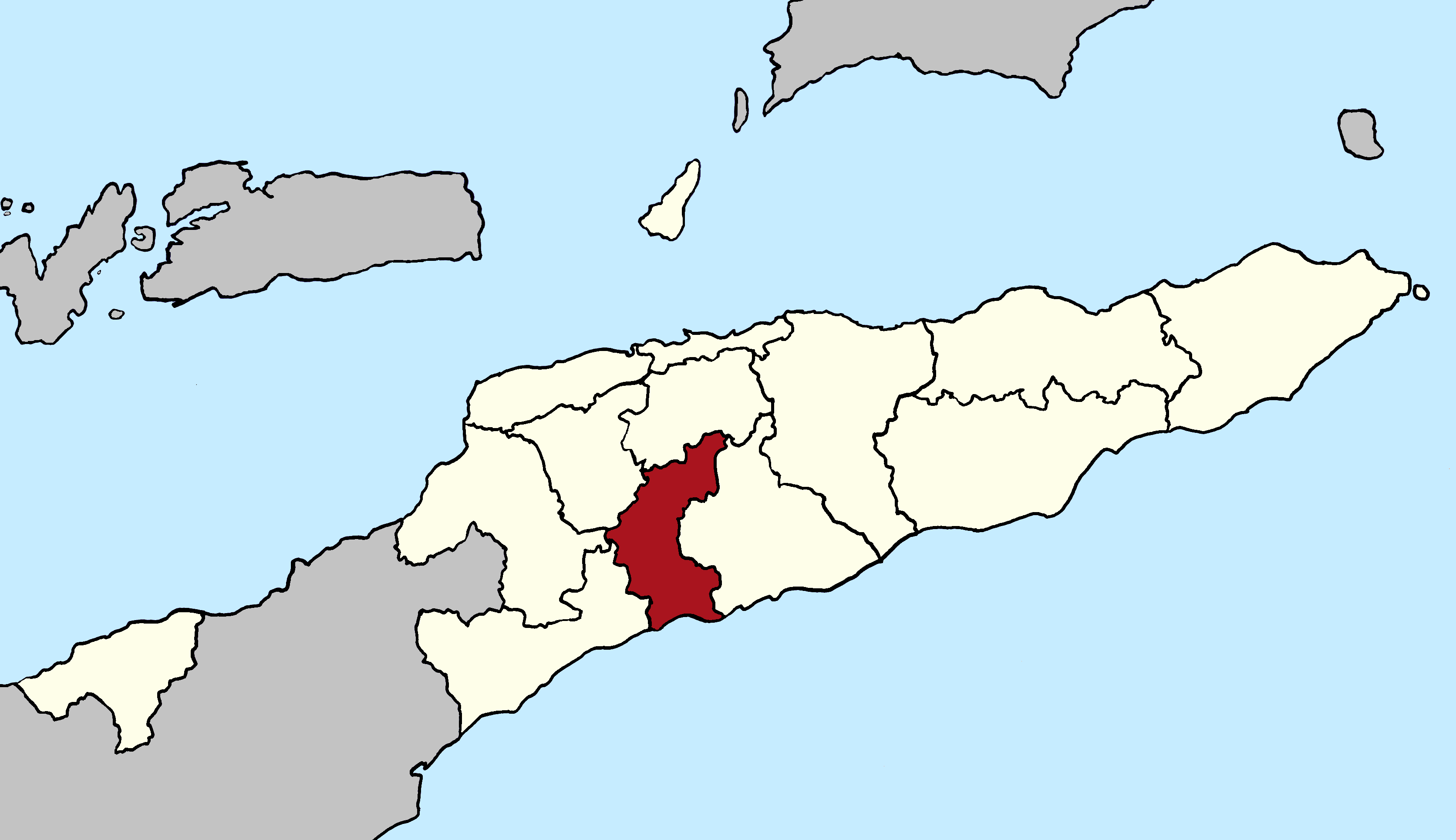 Locator map of Ainaro municipality since 2015, East Timor